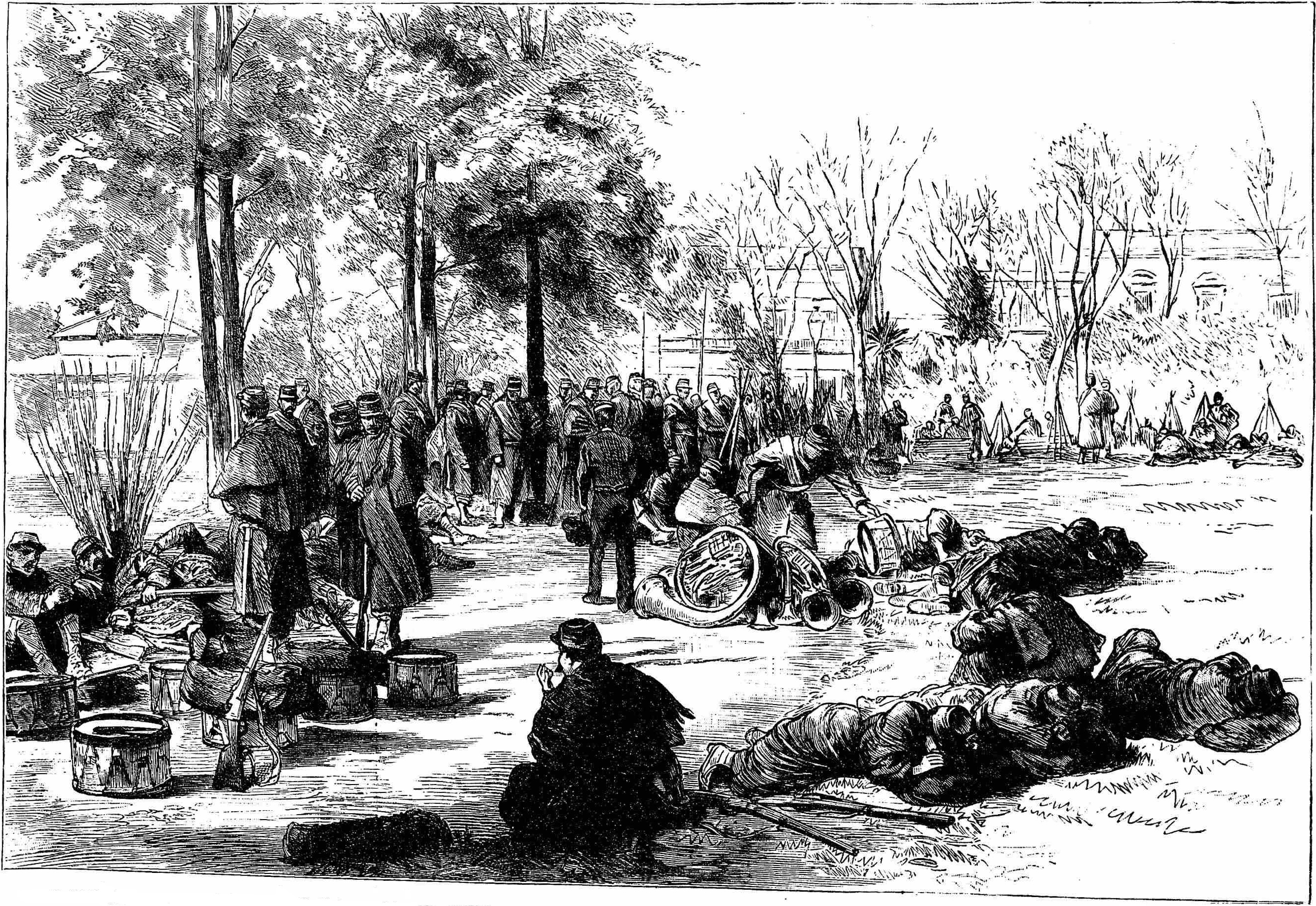 Scenes at Buenos Ayres during the Revolution in Argentina: The government troops resting at Plaza Libertad, about three hundred yards from Plaza Lavalle, after their first encounter with the insurgents.